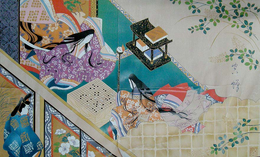 utsusemi